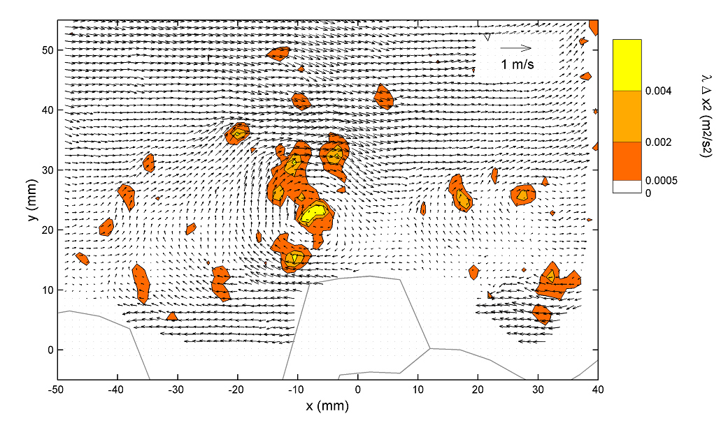 Picture of the relative velocity in a vortex in turbulent flow near a stone, original picture from Hofland (2005) Rock & Roll; Turbulence-induced damage to granular bed protections; PhD thesis TU Delft, p119. Measured data